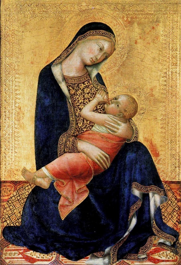 Lippo Memmi, Madonna dell'Umiltà, 1340-45, Berlin Dahlem